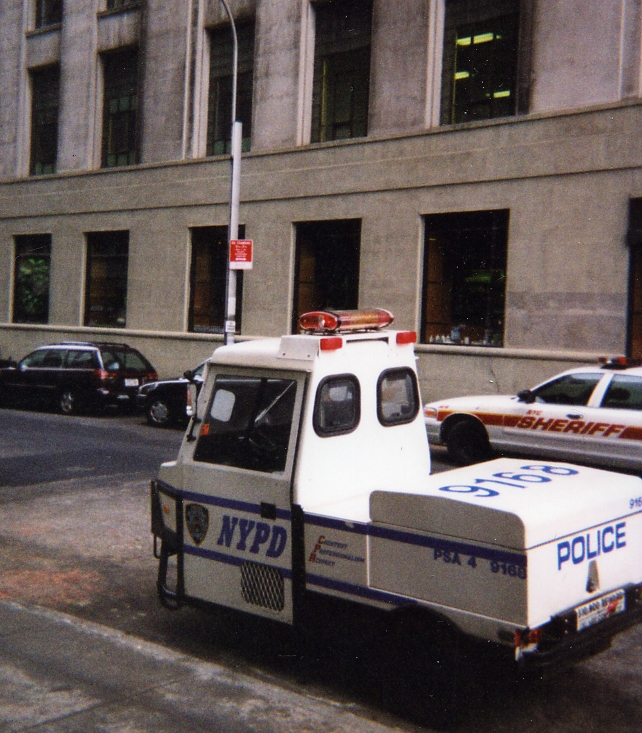 NYPD vehicle, New York.